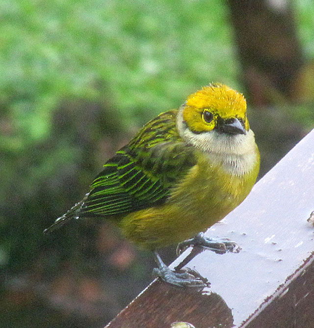 A very wet Tangara Dorada near Lago Arenal, Costa Rica. In context at